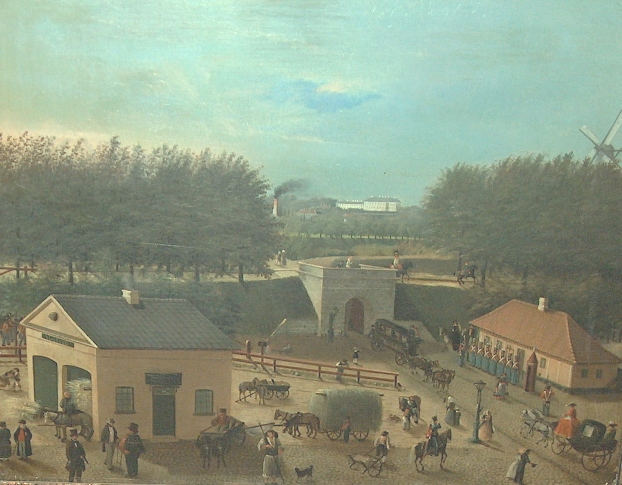 The old Maymarket (Halmtorv) in Copenhagen, Denmark, which was located where the City Hall Square (Rådhuspladsen) lies today. The no longer existing Western Rampart (Vestervold) of the fortifications is seen in the background